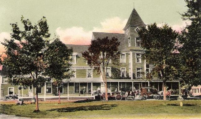 Mansion House, Lancaster, NH; from a 1907 postcard.